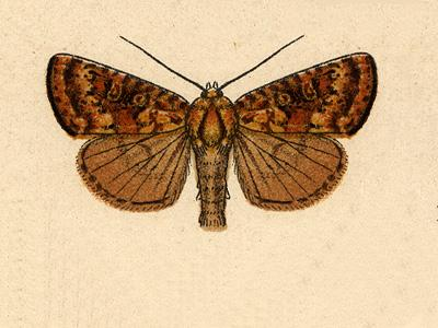 Perigea xanthioides